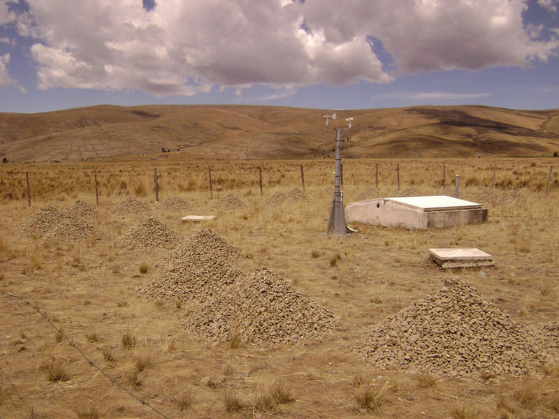 Infrasound Station IS08 La Paz, Bolivia